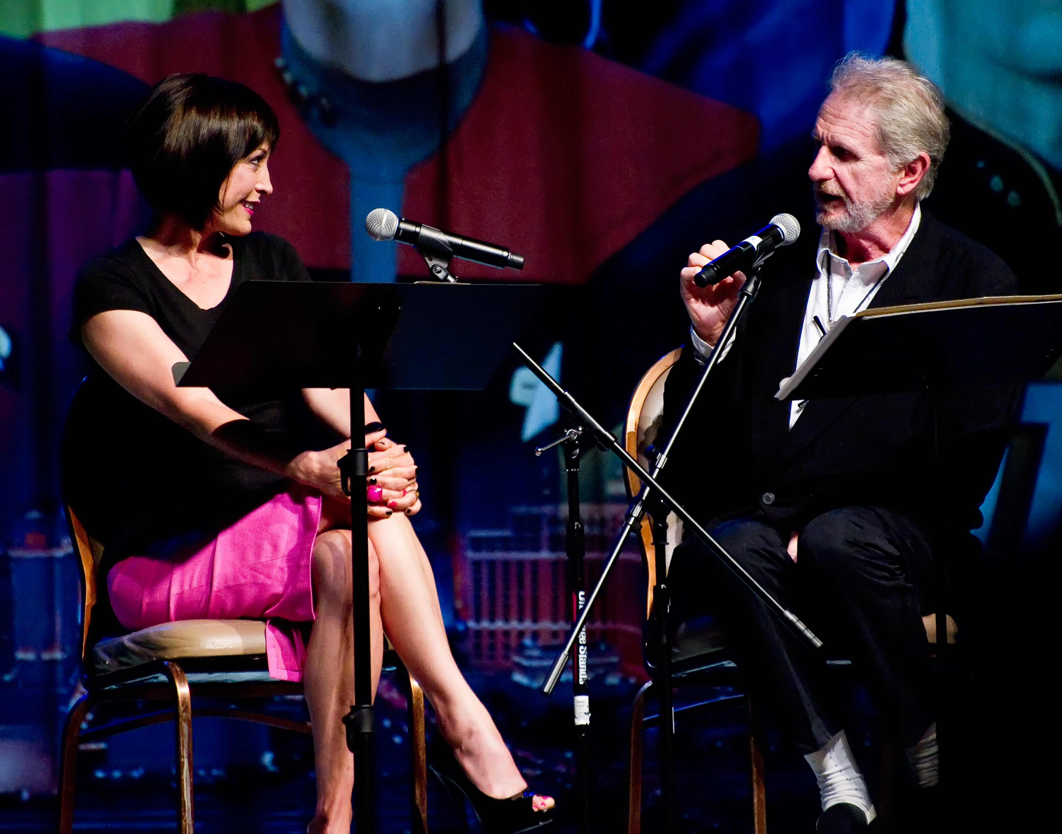 Nana Visitor and René Auberjonois at the 2011 Star Trek convention in Las Vegas.